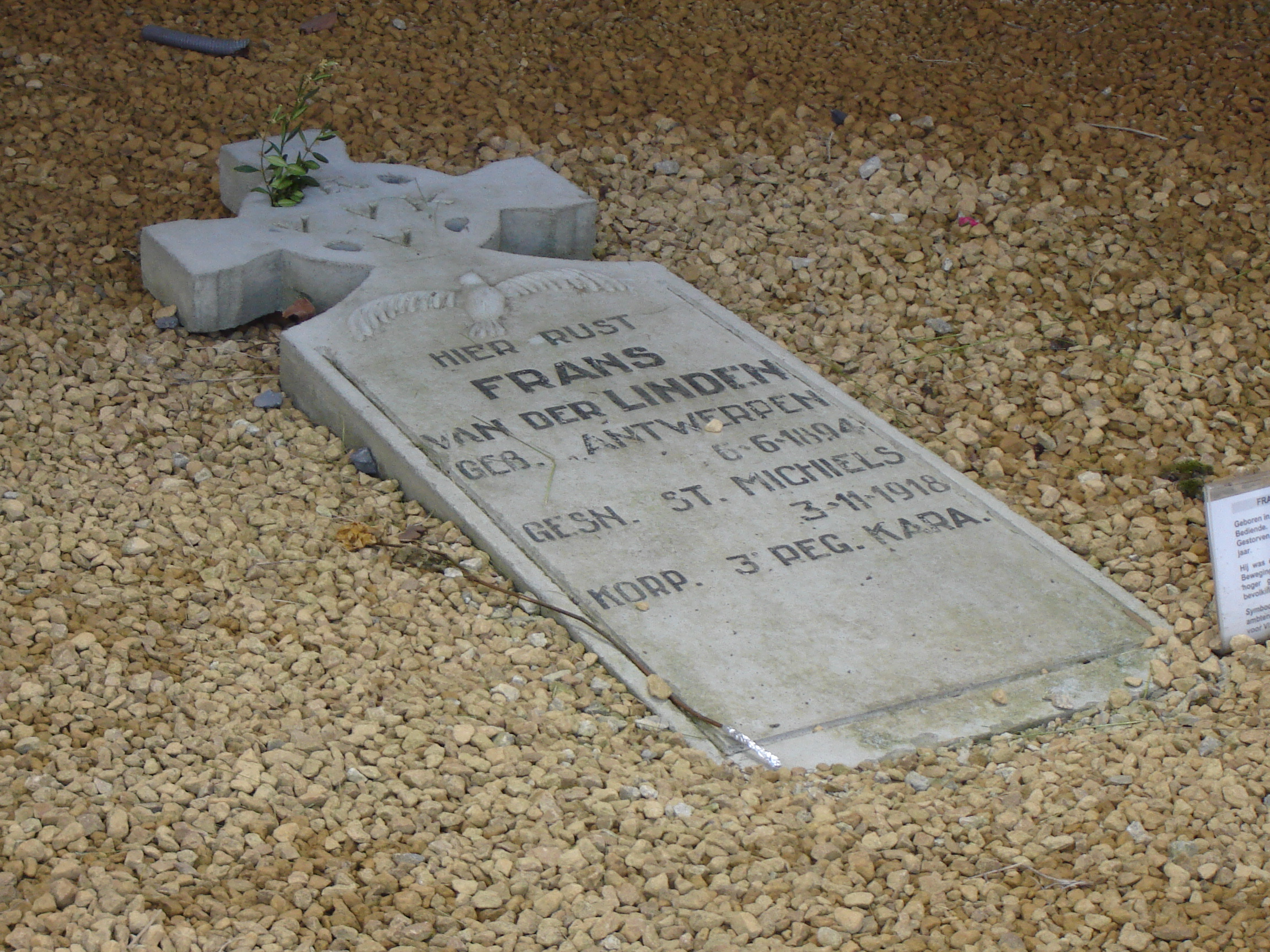 Gravestone of Frans Van der Linden in the crypt of the IJzertoren in Kaaskerke, Diksmuide, West Flanders, Belgium